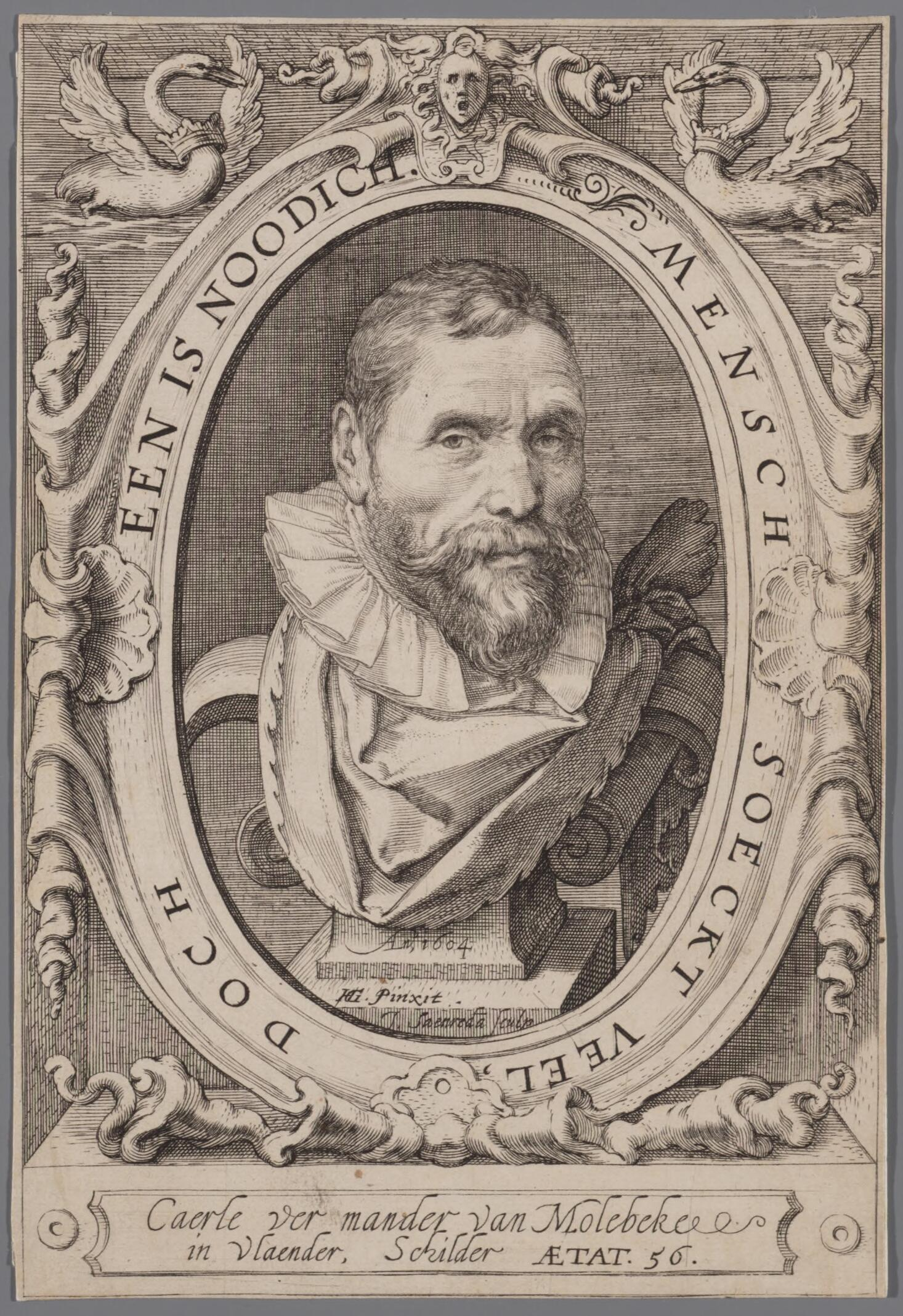 Engraving of Karel van Mander, author of the book "Schilder-boeck", from the book itself. Under the portrait is the year "Ao 1604" and the initials of the painter Hendrik Goltzius "HG pinxit" and the note "J. Saenredam fecit" for the engraver. Surrounding the portrait is van Mander's motto "Mensch soeckt veel, doch een is noodich", meaning "Man searches for many, though (only) one is needed". Underneath the portrait (not shown) are the additional words: "Caerle ver mander van Molebeke in Vlaender, Schilder AETAT. 56.", meaning he was 56 at the time the painting was made. Top left and right: two swans crowned and gorged but not chained.